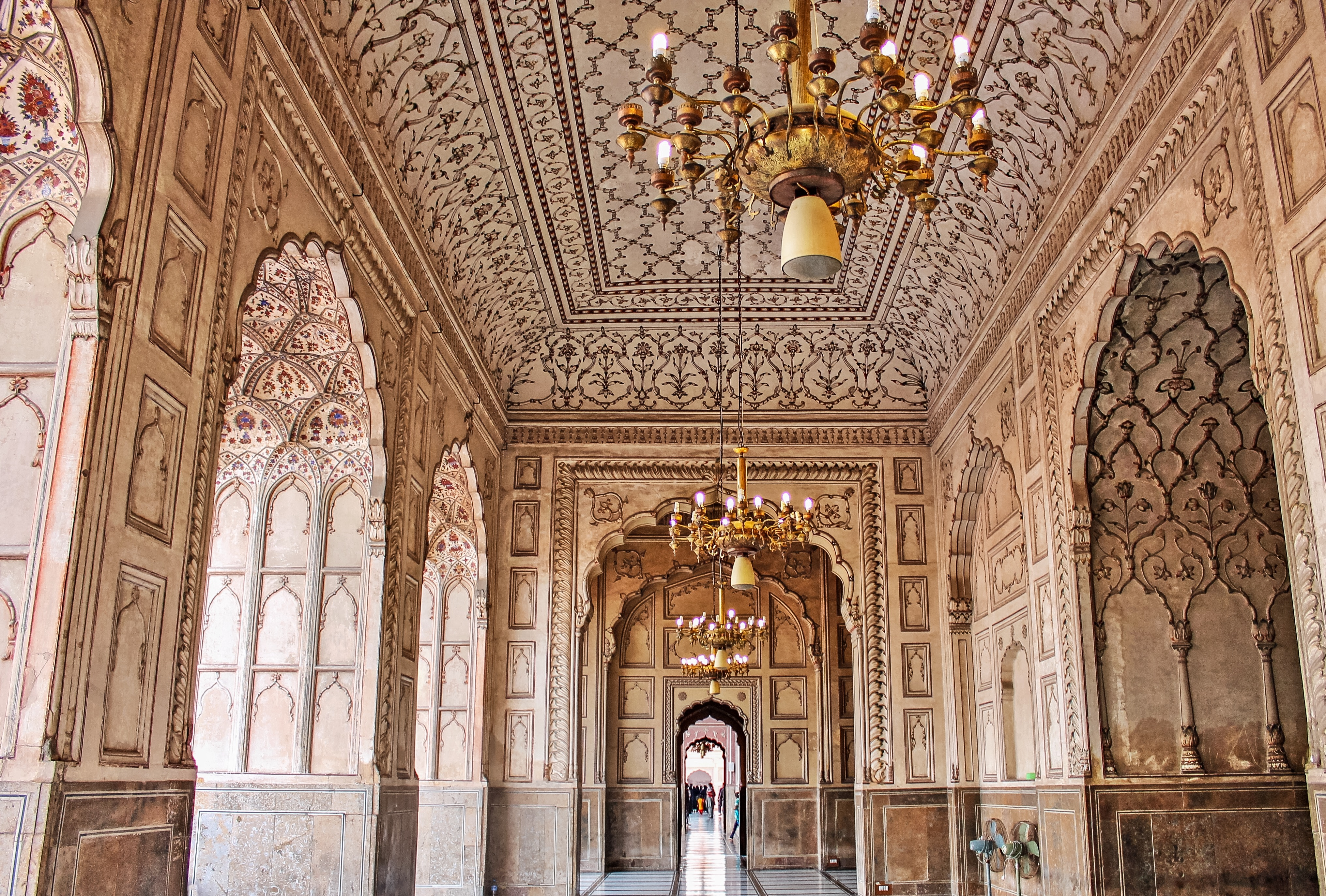 A view of the interior of the Badshahi Mosque.